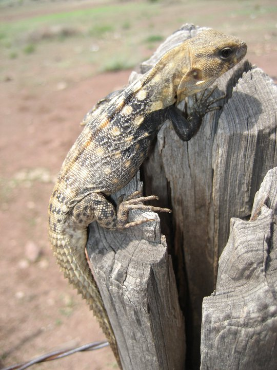 especie endemica de Tierra Caliente